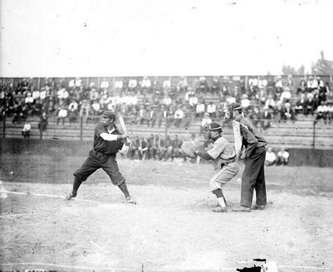 "Image of African American baseball player J. Preston "Pete" Hill of the Leland Giants baseball team, holding a baseball bat, standing in a batting stance at home plate on a baseball field in Chicago, Illinois. Catcher Sanchez of the Cybans baseball team, is crouching behind home plate, and umpire Geockel is standing behind Sanchez. Geockel appears to be Caucasian. Crowds are sitting in bleachers in the background."